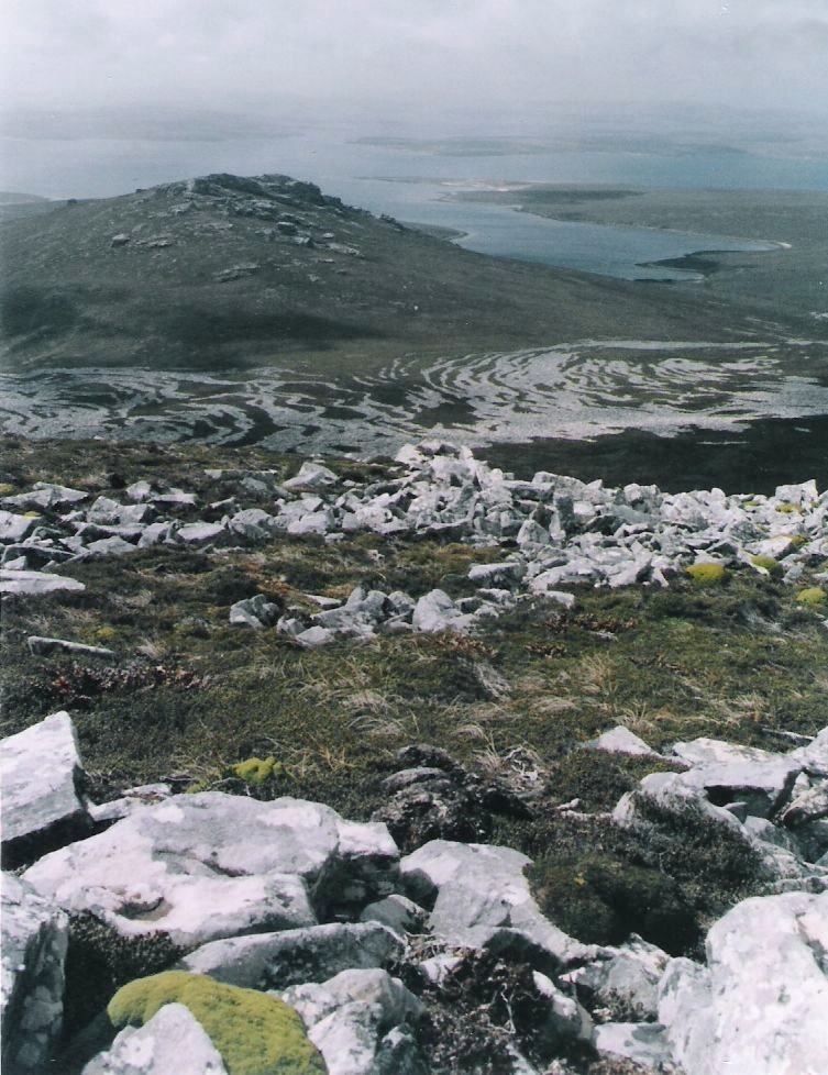 Stone runs on Weddell Island, Falkland Islands. Edited version of the picture published in Wikimedia Commons by Kelperwitch